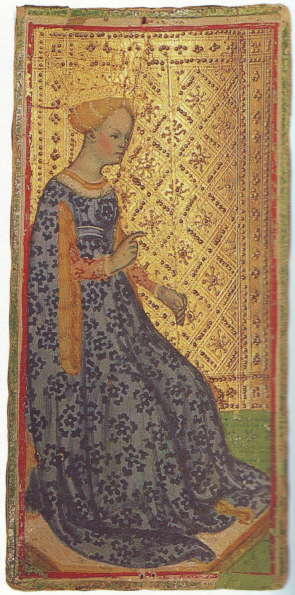 Visconti Sforza (Tarot) – Brambilla Brera Visconti – Sforza Deck